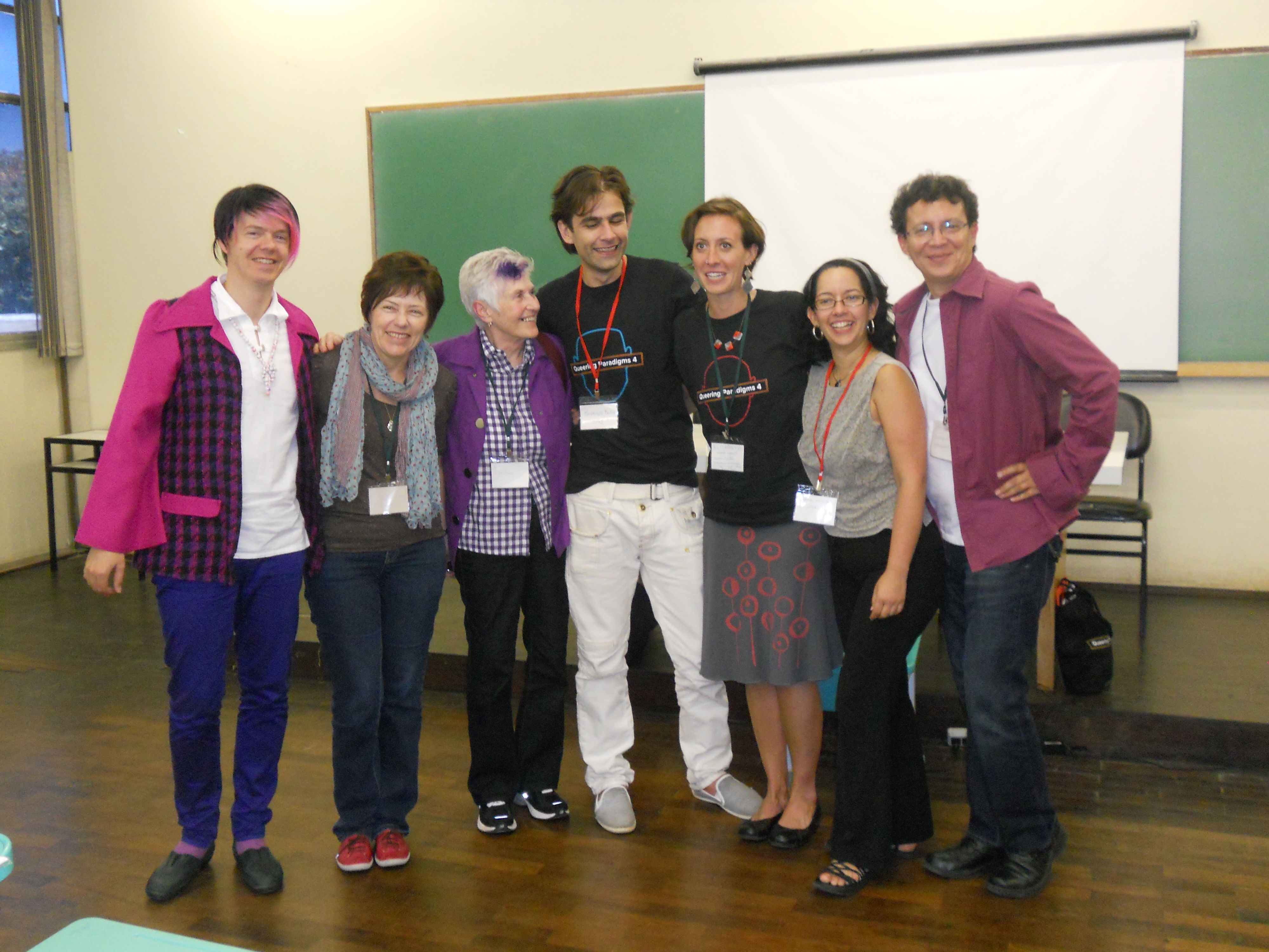 Organisers of Queering Paradigms. From left to right: Prof. B Scherer (Founder and QP1), Dr. Sharon Hayes (QP2), Prof. Kathleen O'Mara (QP3), Rodrigo Borba and Elizabeth Lewis (QP4), Dr. Maria-Amelia Viteri (QP colloquium Quito and QP5) and Santiago Castellanos, PhD (QP colloquium Quito).